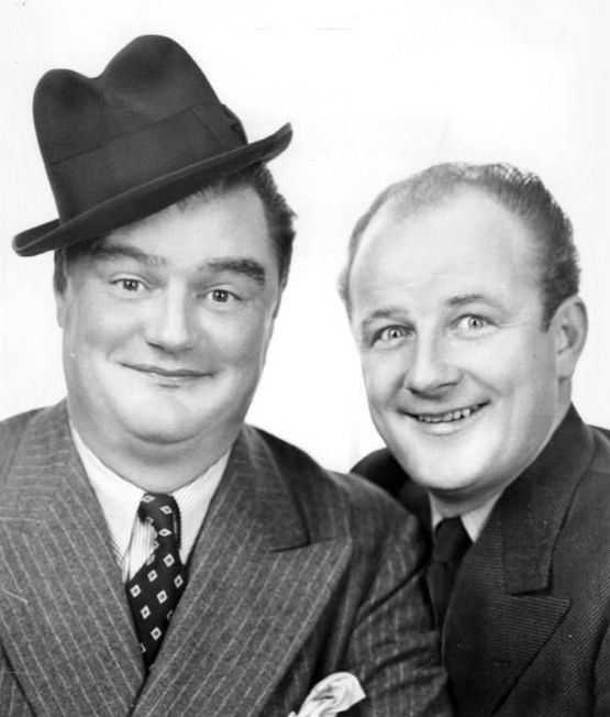 Publicity photo of Wilbur Budd Hulick (Budd) and Frederick Chase Taylor (Stoopnagle) of the comedy team Stoopnagle & Budd from the radio program Town Hall Tonight.